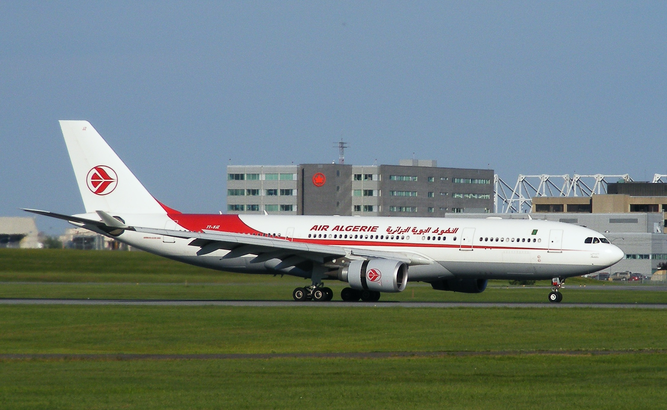 Air Algérie Airbus A330-200 and the Air Canada Centre (Air Canada headquarters) at Dorval Airport